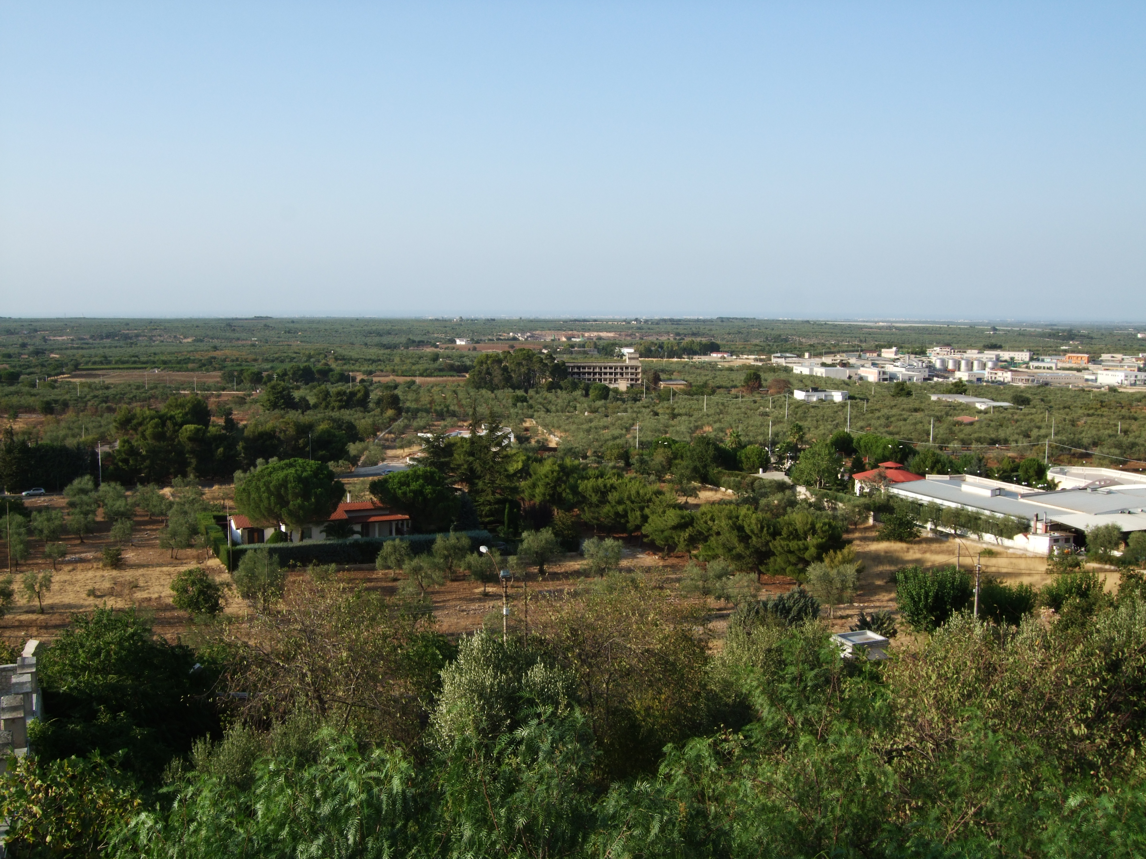 Landscape from the viewpoint of the Monastero di Cassano (Italy)